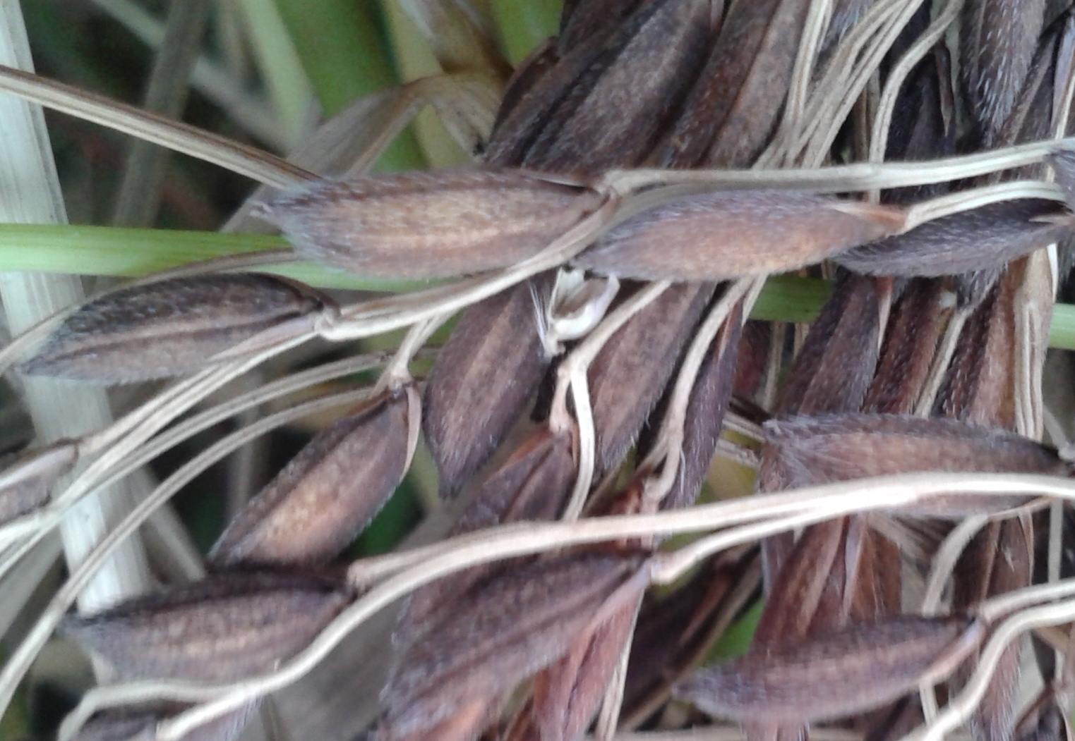 a variety (Kola Joha) of aromatic Joha rice of Assam